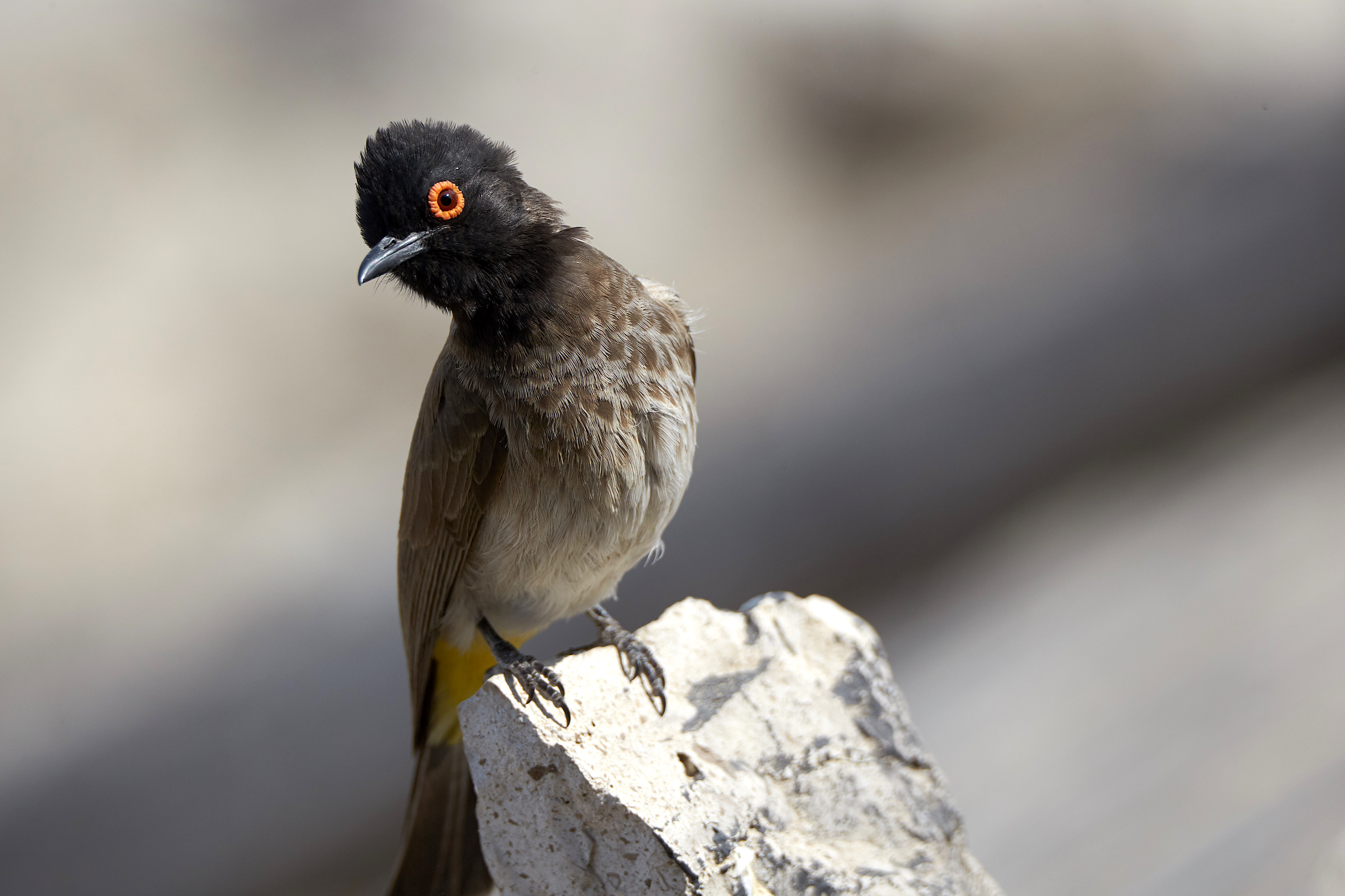 African red-eyed bulbul (pycnonotus nigricans) at the Okaukuejo waterhole in Etosha Namibia